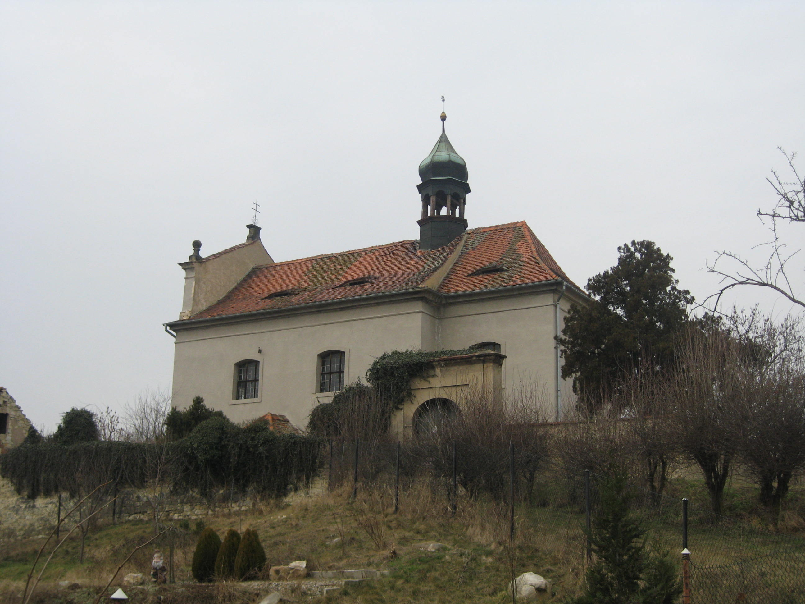 Church of Saint Wenceslaus in Lipenec